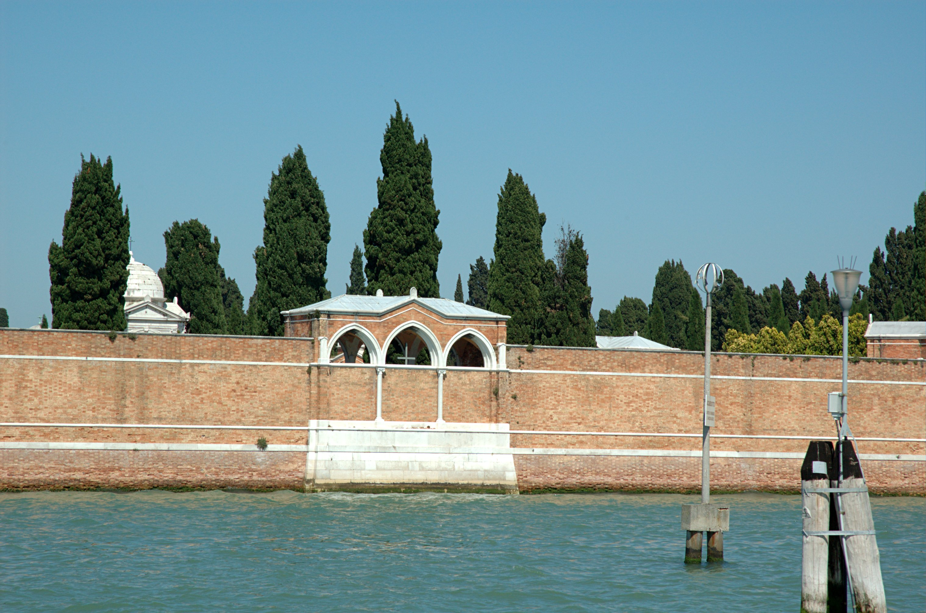 Walls of San Michele, Venice, seen from the Lagoon.